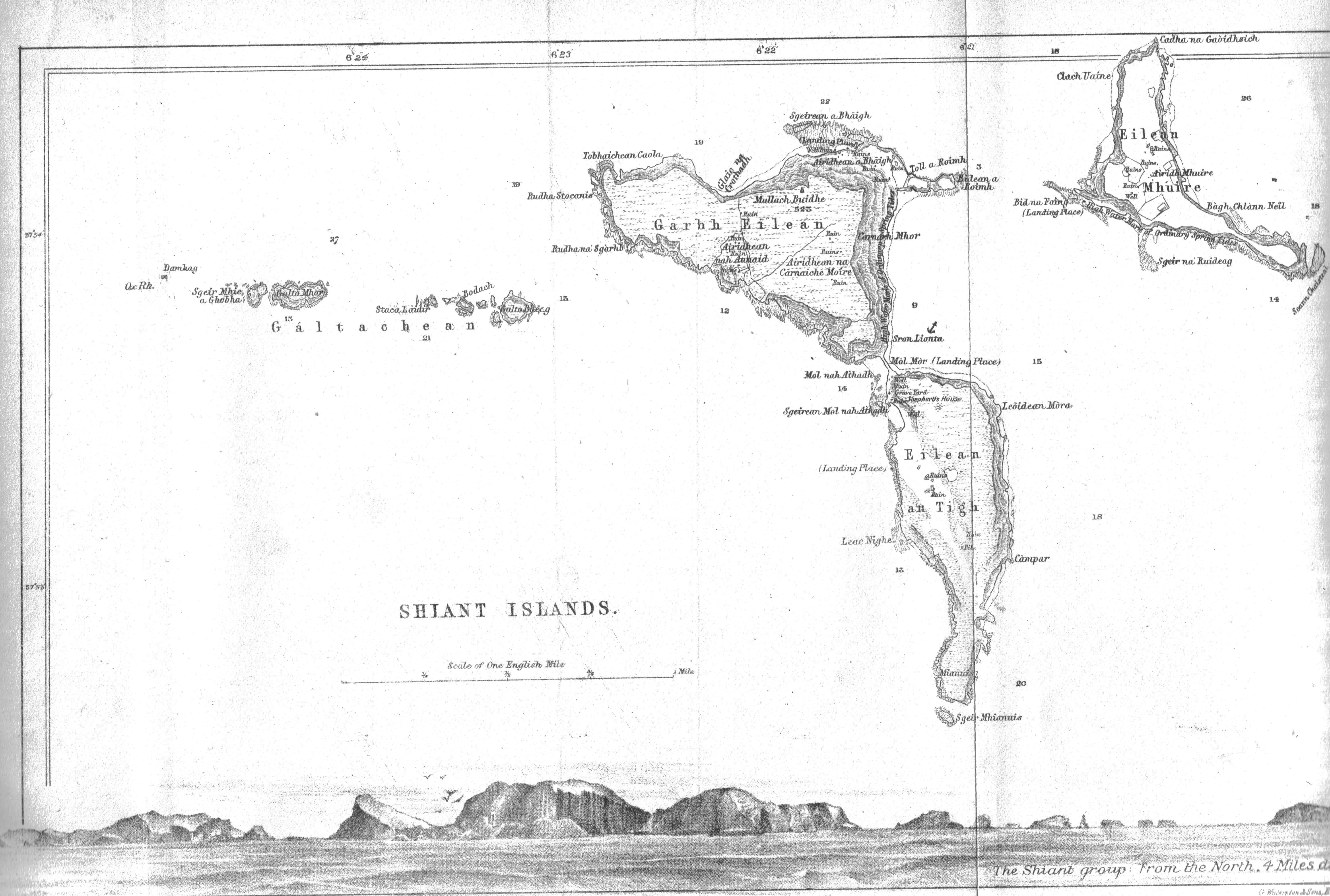 old map of Shiant Isles, Outer Hebrides, Scotland, Great Britain from publication:A Vertebrate Fauna of the Outer Hebrides. Pub. David Douiglas, Edinburgh. Facing P. XXIV.